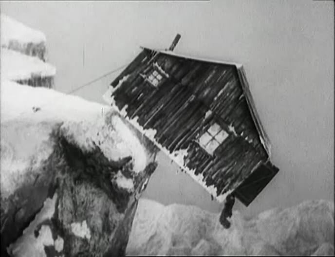 Scene from the movie The Gold Rush. 1925.